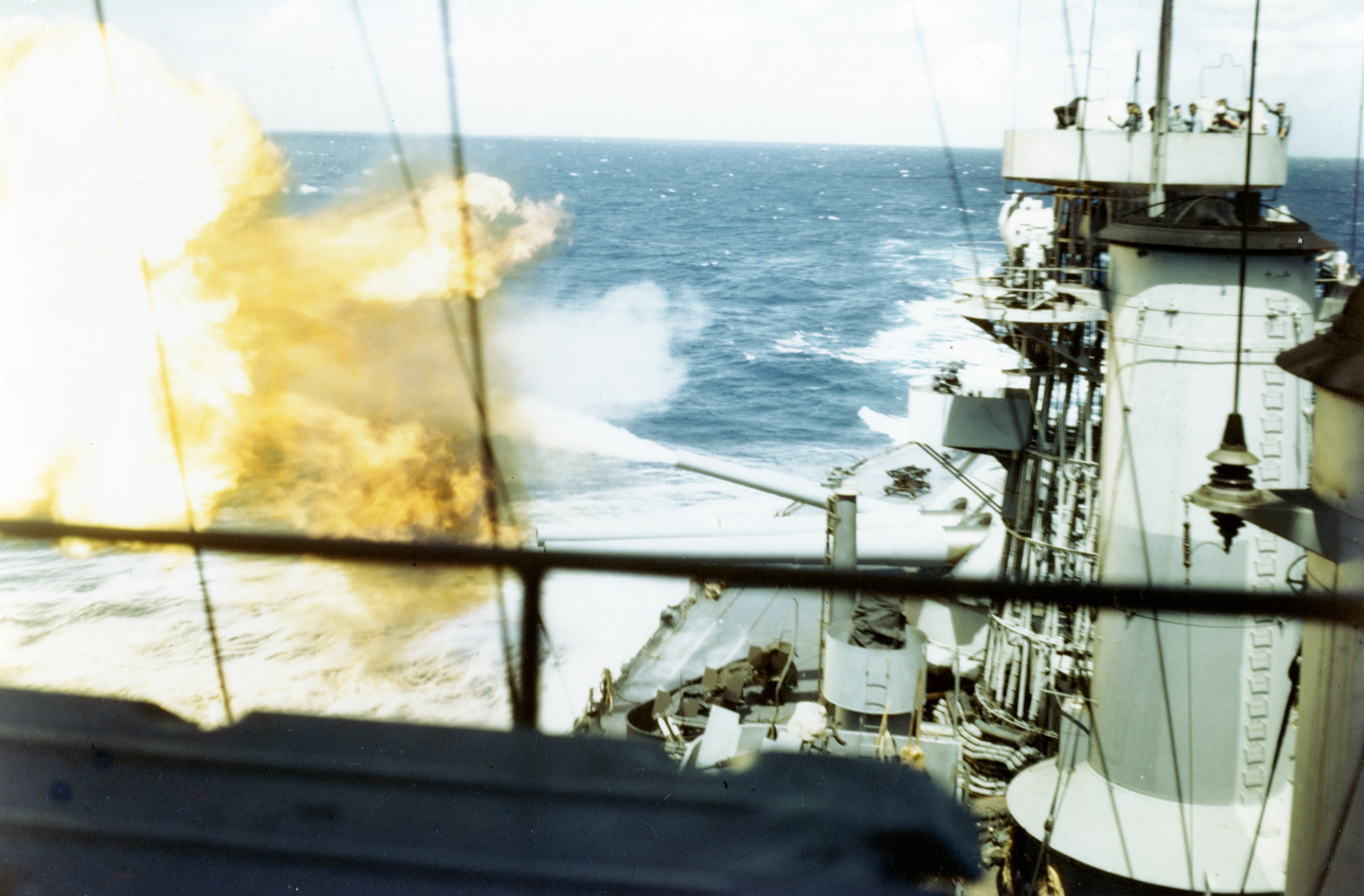 The U.S. Navy battleship USS Colorado (BB-45) firing her after 40.6 cm/45 guns, during preparations for the Tarawa invasion, which took place in late November 1943. Crewmen visible in this photo are not in combat dress, indicating that the view was taken during battle practice.